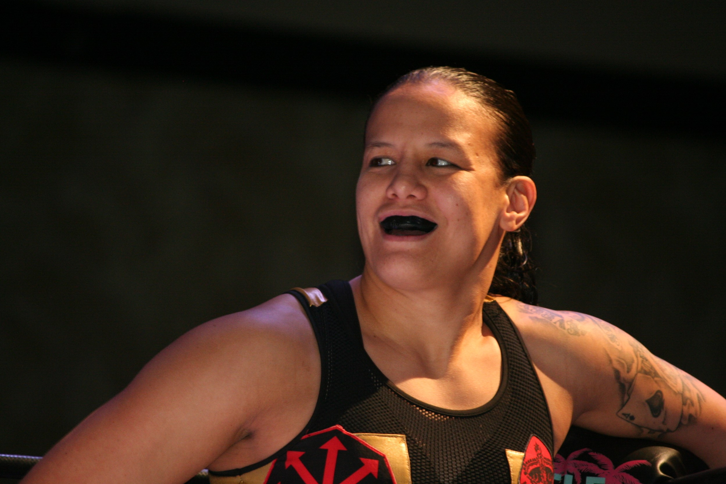 Joey Ryan vs.Shayna Baszler at Wrestlecon Womens Supershow in Orlando